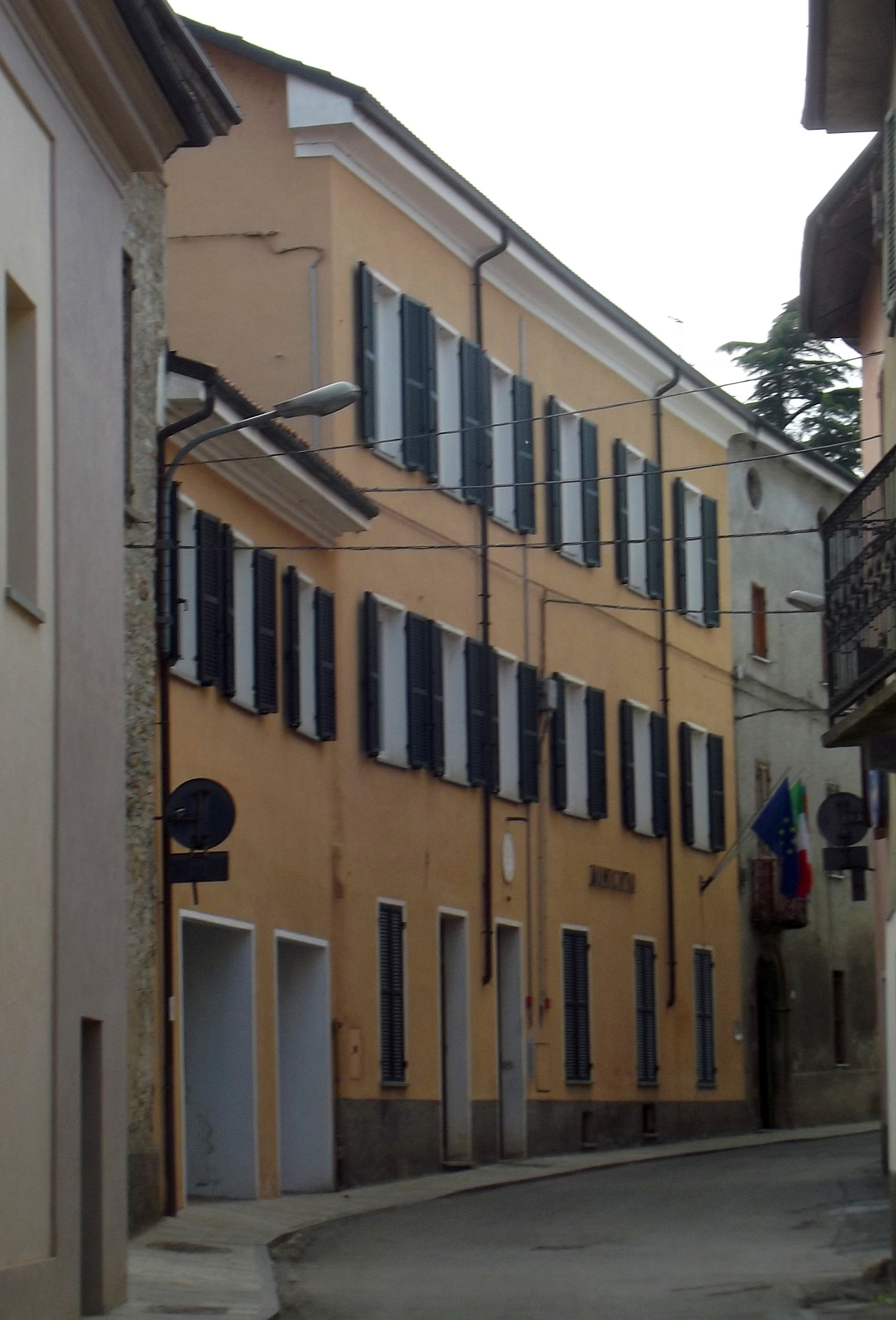 Visone (AL, Italy): town hall